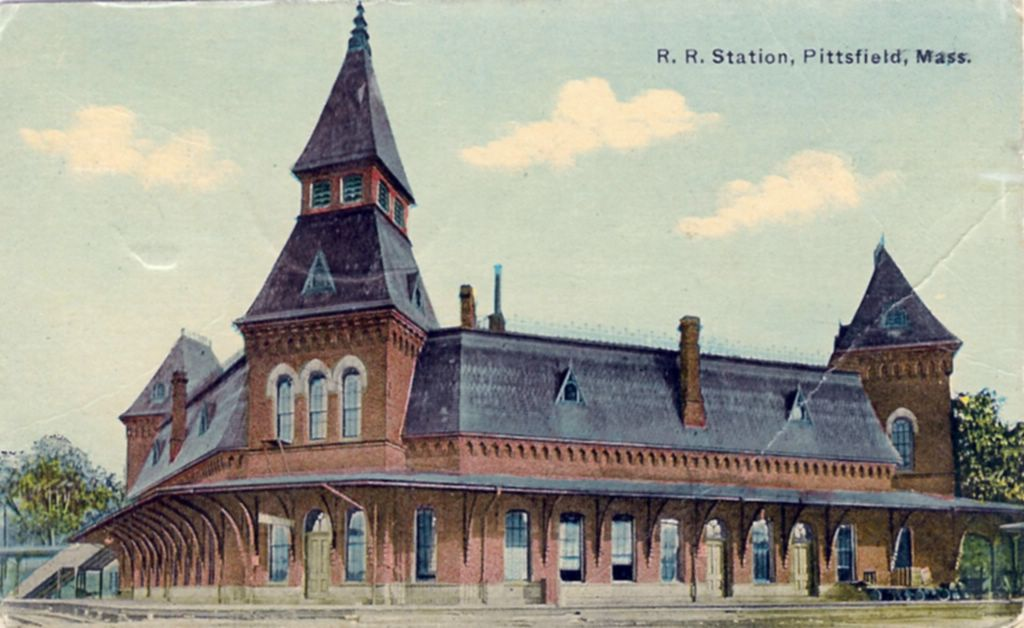 Early divided back postcard of Pittsfield Union station